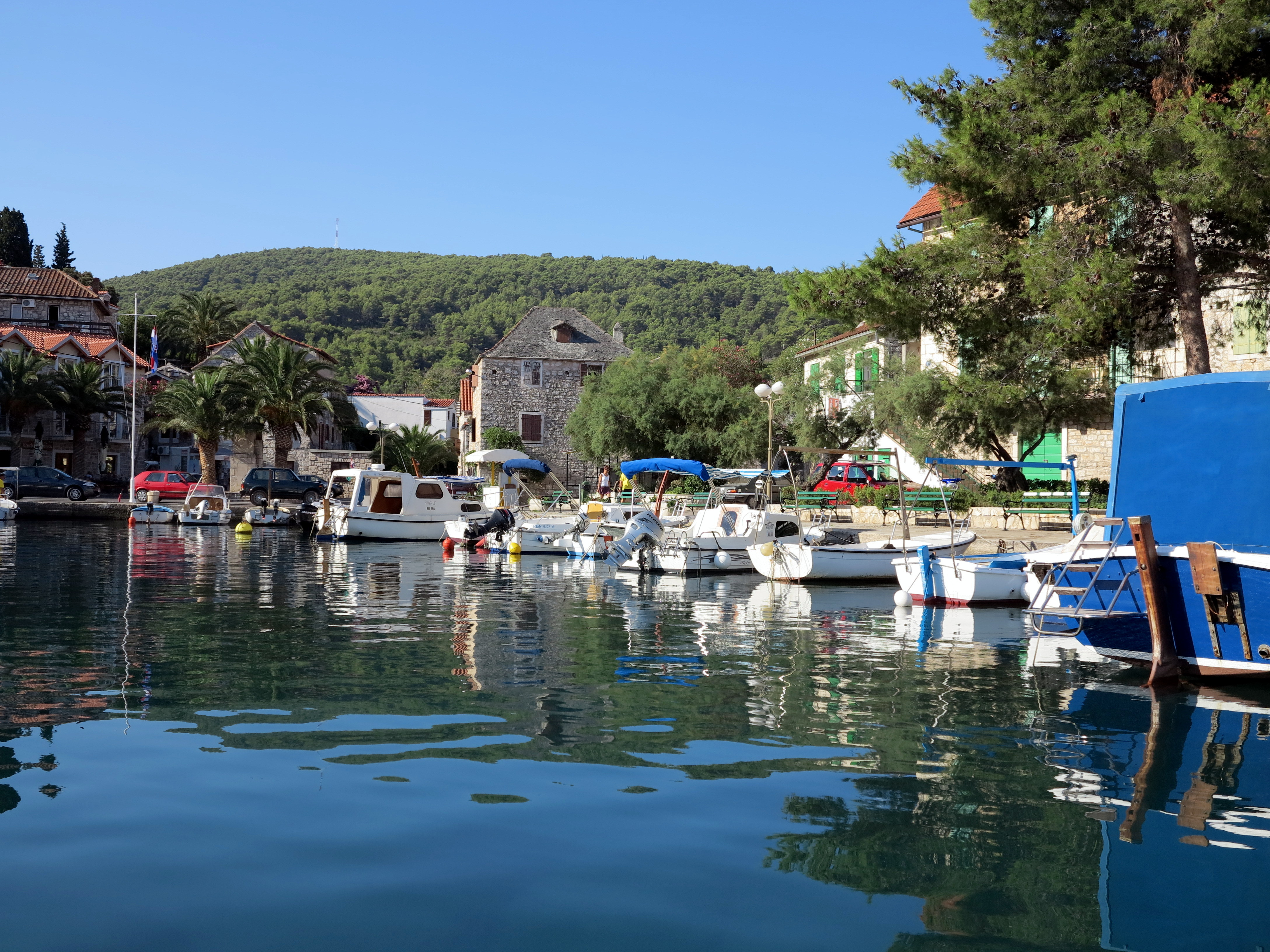 Stomorskaon the island Šolta / Croatia / Adriatic Sea.